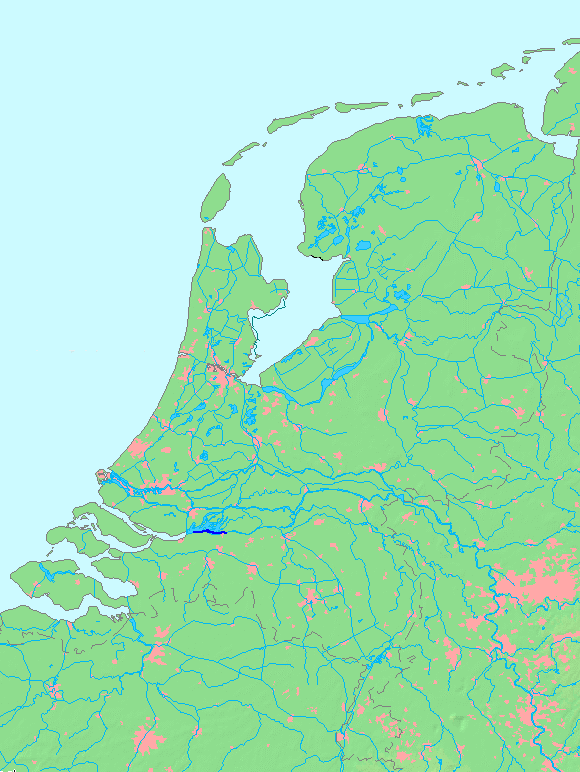 Location of a waterway (river/canal) in the Netherlends